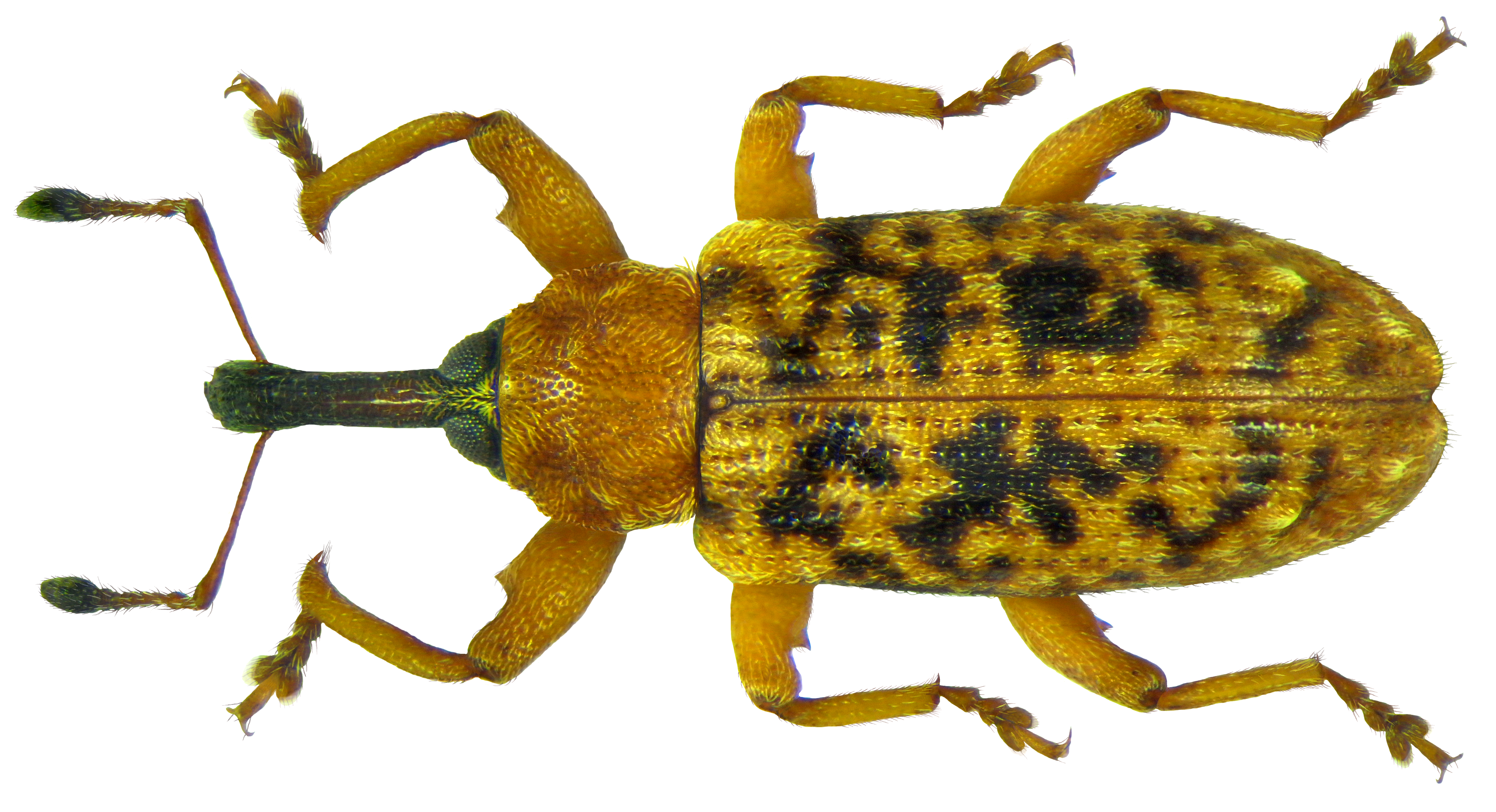 Family: Curculionidae Size: 3-4,5 mm Distribution: Europe to Siberia Ecology: lives on Salix species and Populus tremula Location: Germany, Bavaria, Upper Franconia, Selbitz / Uschertsgrün leg.det. U.Schmidt, 25.VI.2004 Photo: U.Schmidt, 2012